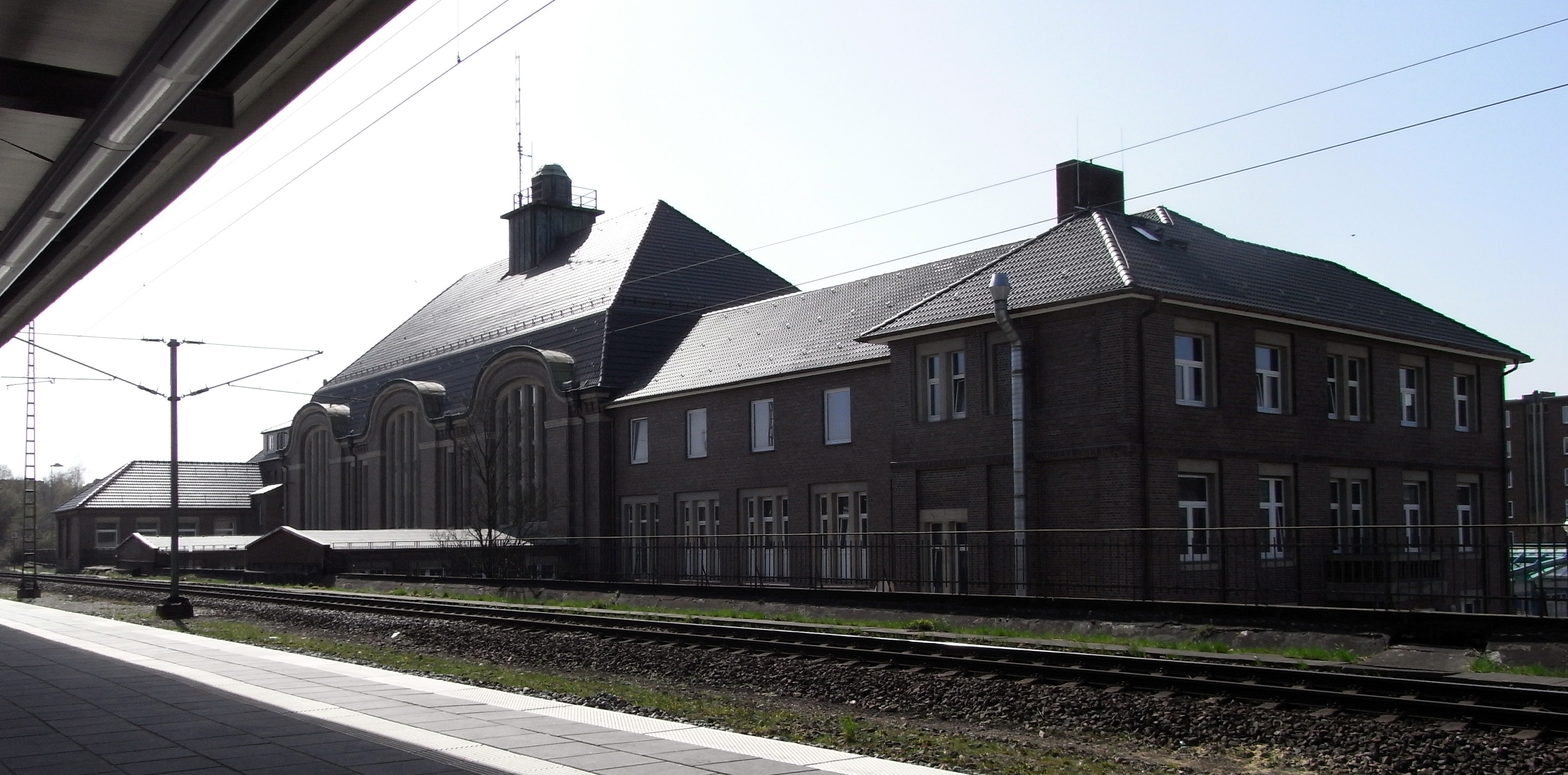 Bremerhaven Hauptbahnhof, backside shot from railtrack 2 in year 2011 with my Ricoh R8